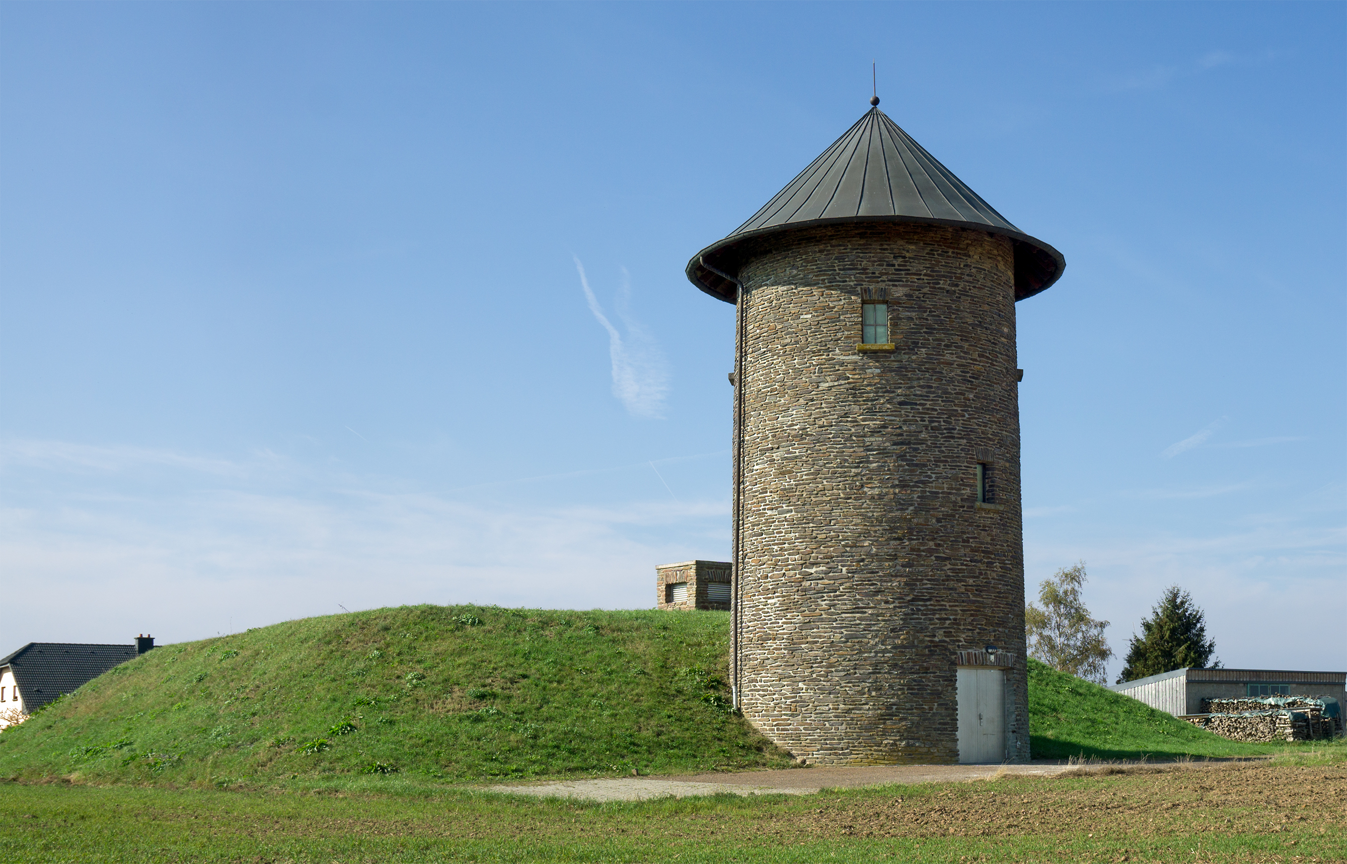 Water tower in Nothum